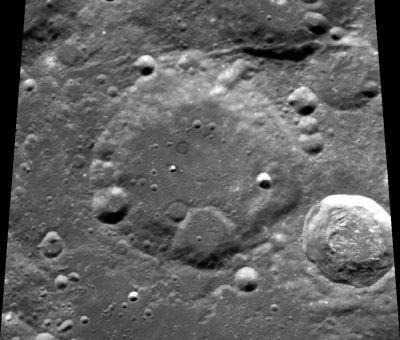 Clementine image. In this frame, Smoluchowski is the large crater at centre. Adjacent Poczobutt is the plain south of Smoluchowski. The crater north-northeast of Smoluchowski is Paneth.